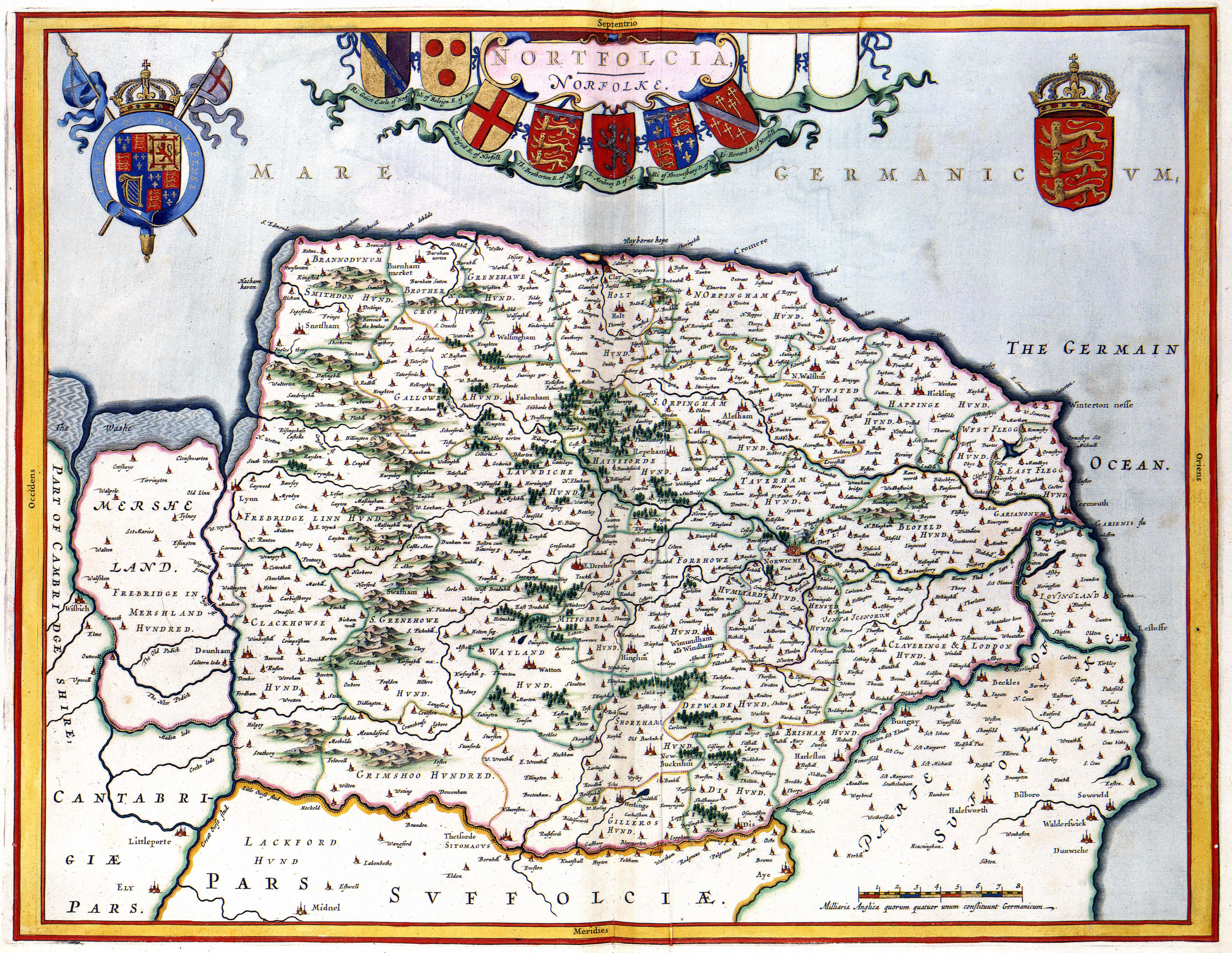 In 1645, Joan Blaeu (1598-1673) successfully published an atlas of England. Blaeu based this atlas on the Theatre of the Empire of Great Britaine published by his English colleague John Speed (1552-1629) in 1611. Infected by this success, Blaeus neighbour, Jan Janssonius (1588-1664), copied the complete atlas. Janssonius published this pirate issue in 1646. This map of Norfolk has been taken from Janssonius atlas.